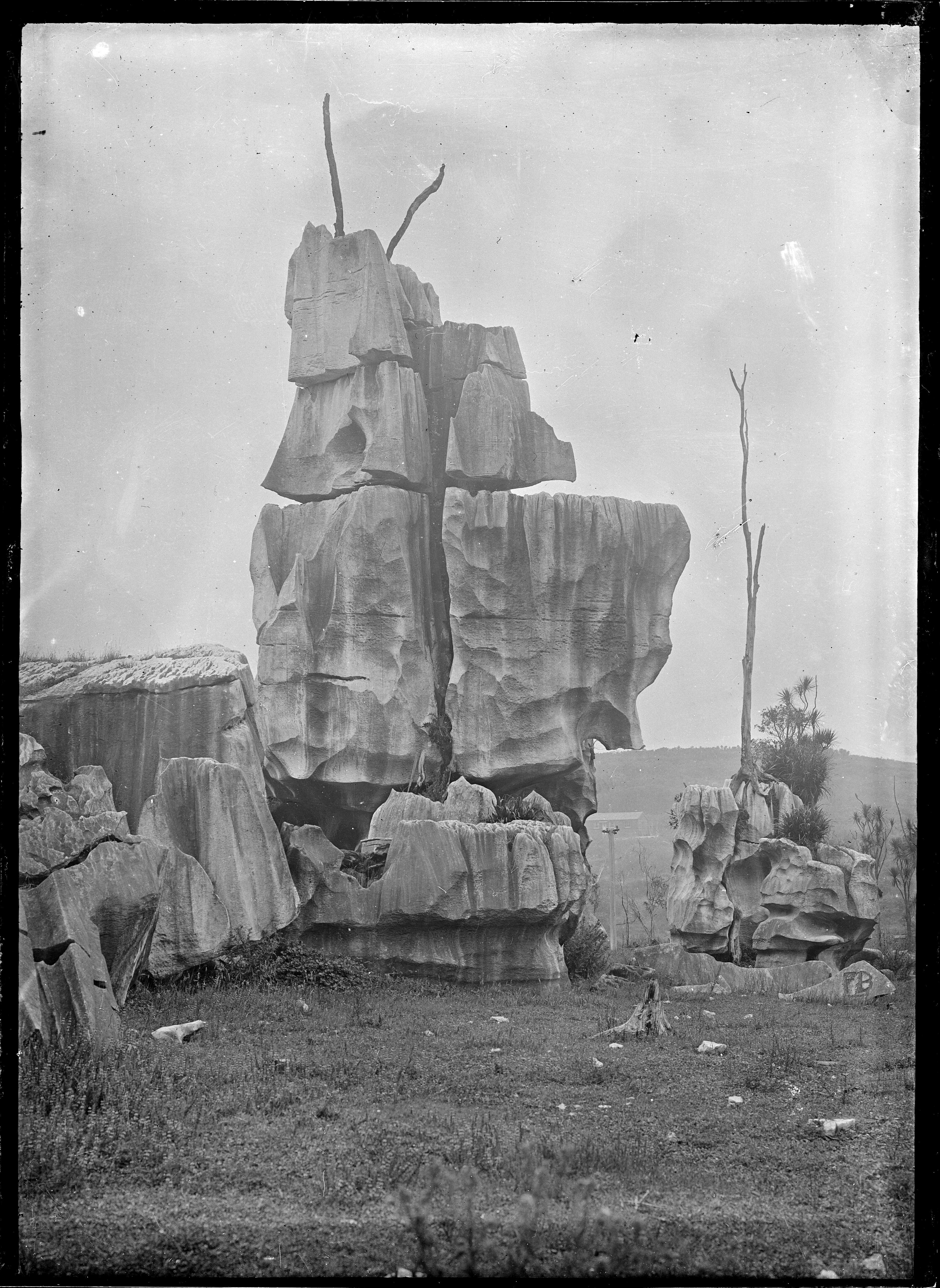 Weathered limestone rock at Waro. Photograph taken by Albert Percy Godber in 1918.